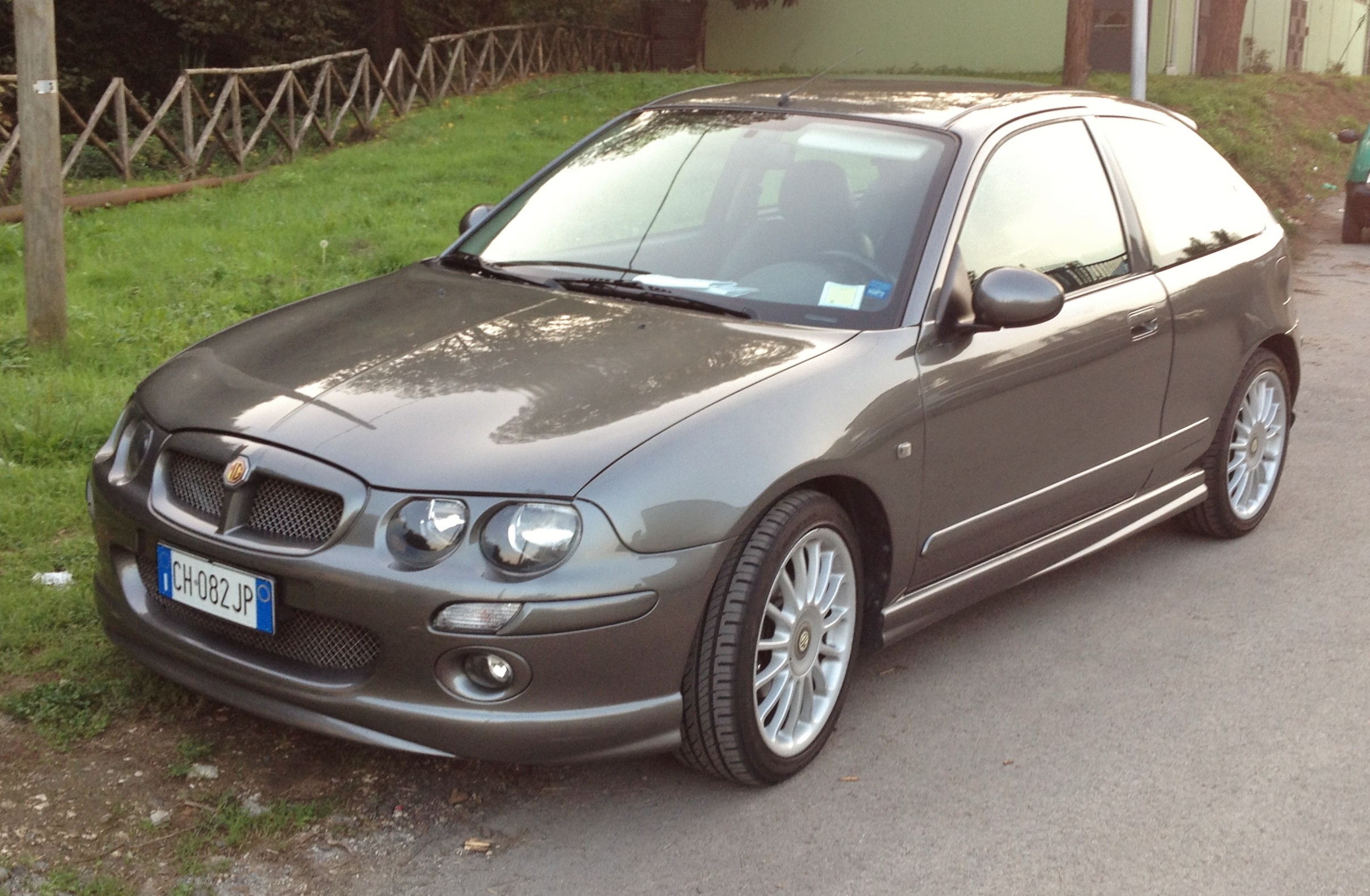 MG ZR 3door Sport front